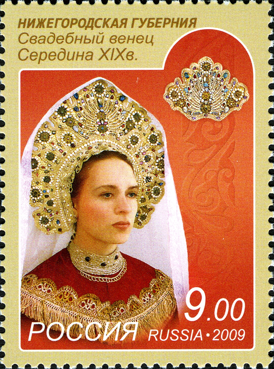 Culture of Russian People - National Head dress - Wedding crown - Middle of XIX Century, Nizhniy Novgorod Province. Postage stamp of Russia. 9 roubles